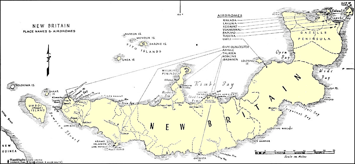 Map of New Britain during World War II